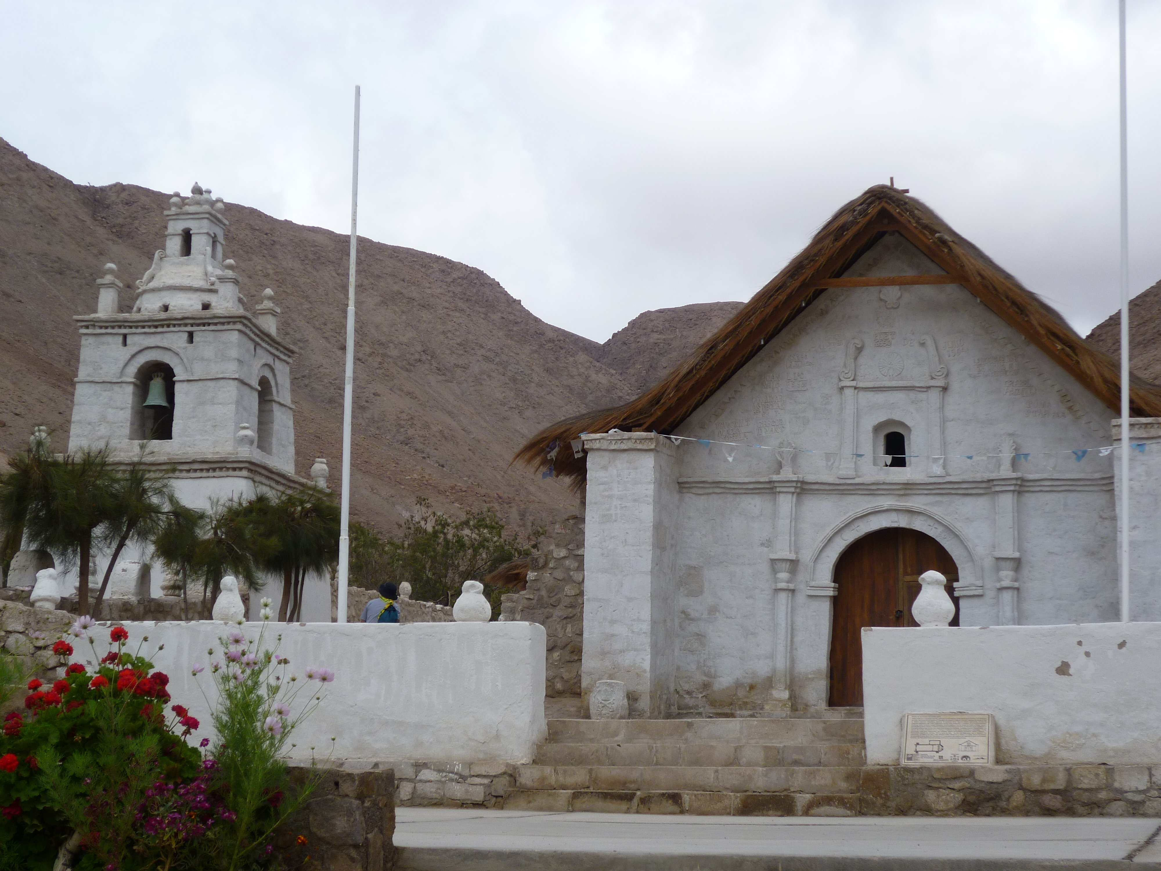 Iglesia de Guañacagua